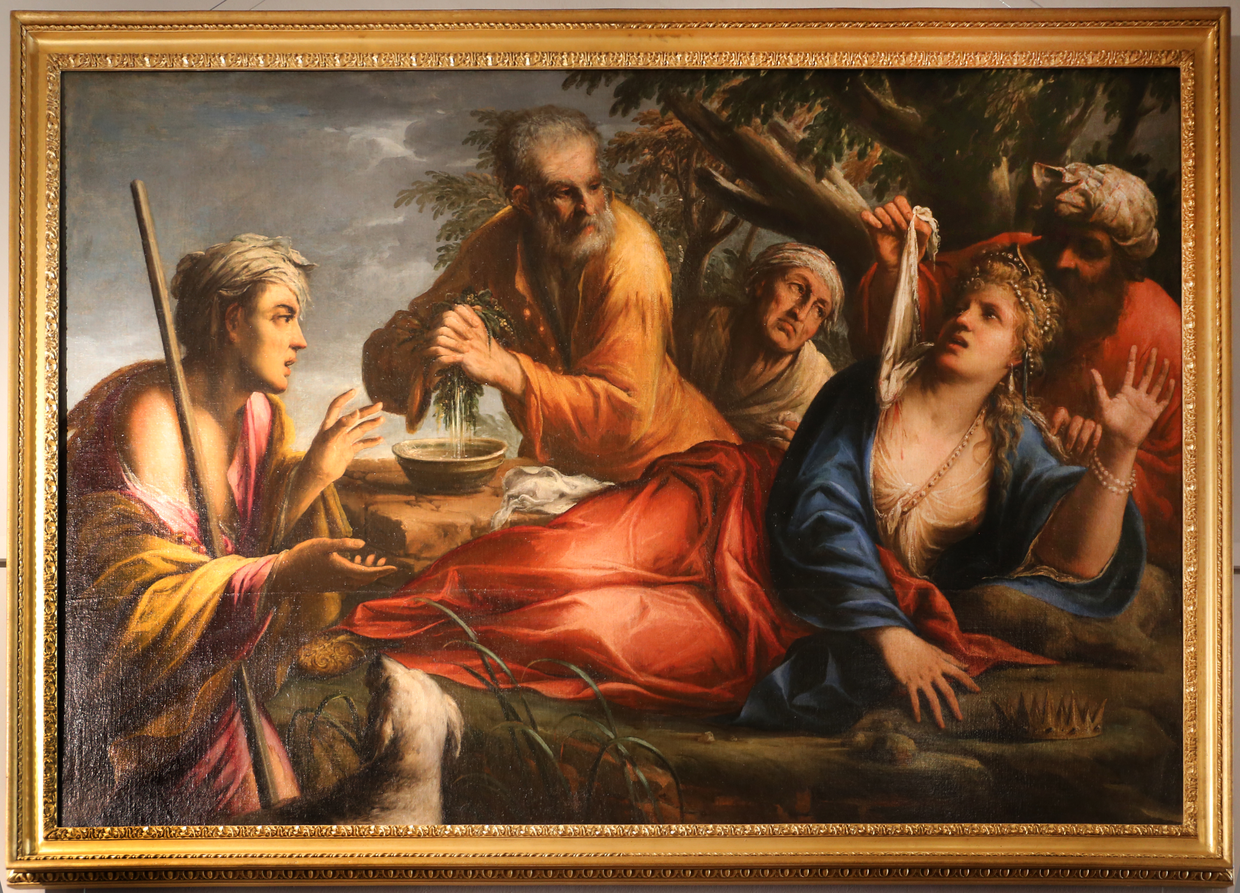 Paintings in the Musée Fesch